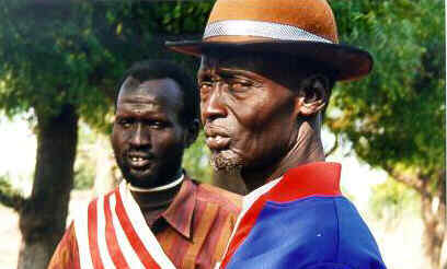 Photograph of Nuer Chief Isaac Magok of Leer and Dinka Chief Madut Aguer of Tonj taken by William O. Lowrey during the Wunlit Peace Conference in Wunlit, South Sudan, in 1999.